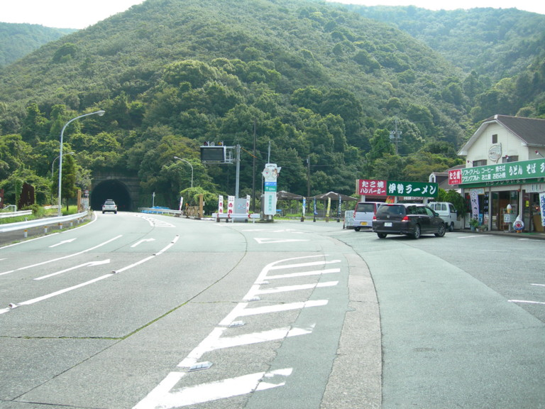 Mie prefectural route No.32, between Ise city and Shima city in Japan.